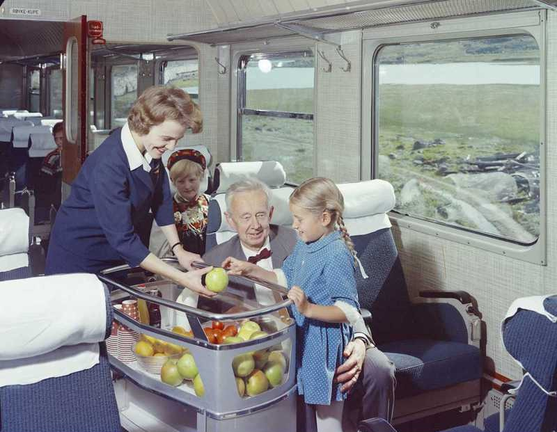 Norwegian State Railways B3 carriages on the Bergen Line